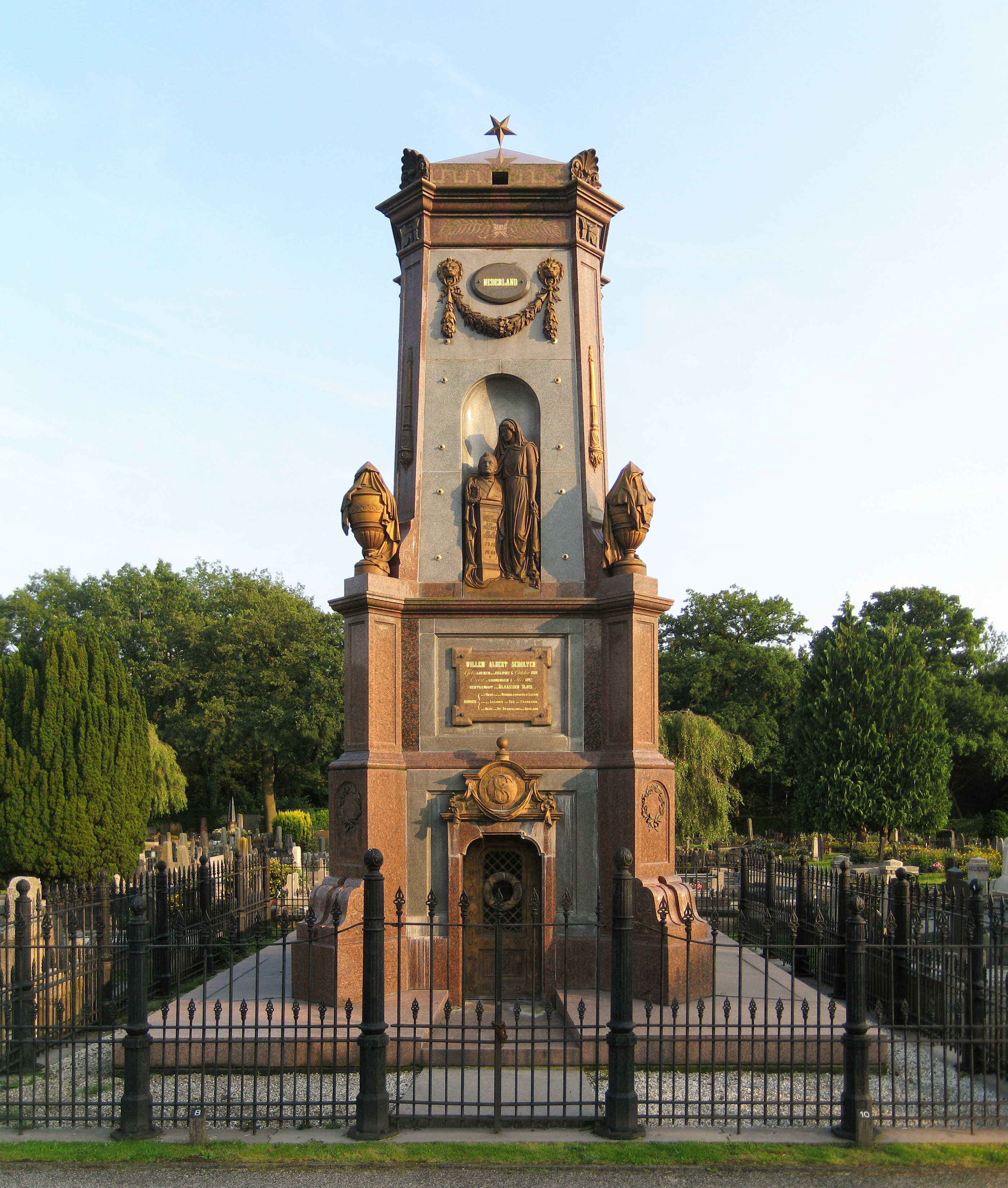 Grave memorial of the Scholten family at the Zuiderbegraafplaats, a cemetery in the Dutch city of Groningen.